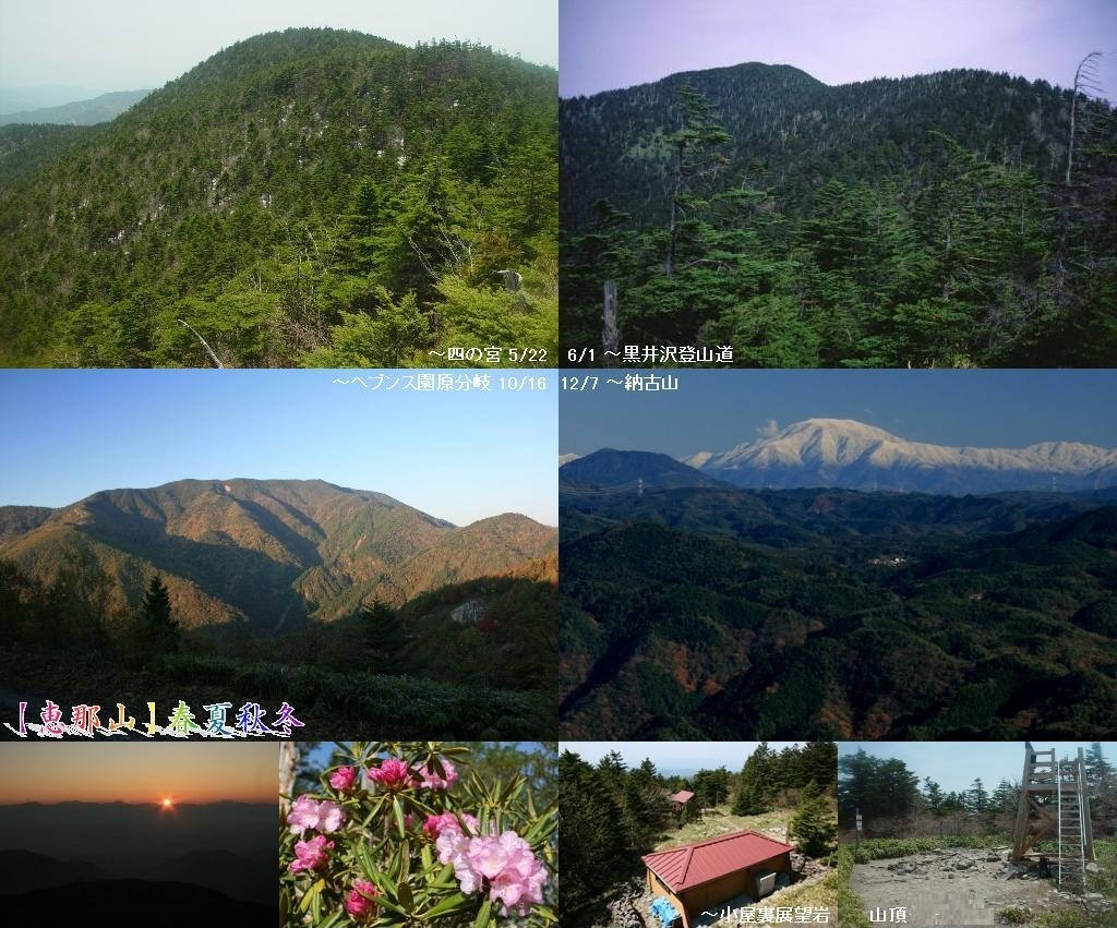 Montages of Mount Ena, in Kiso Mountains, Japan.